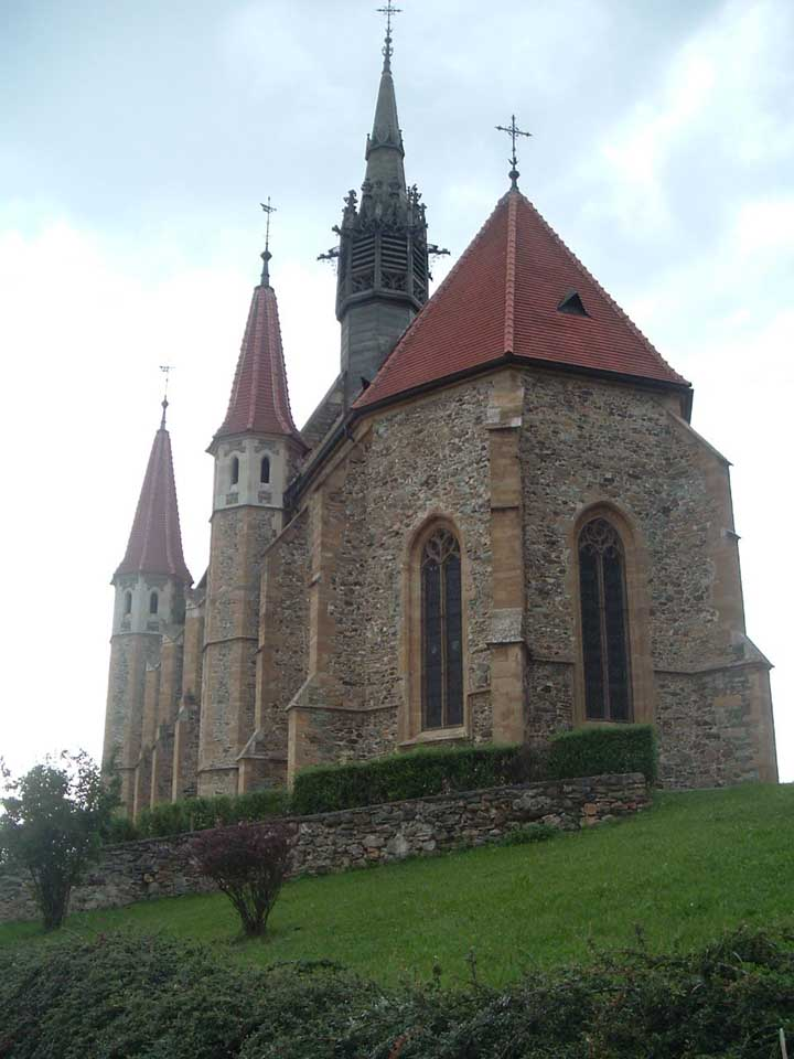 The gothic church of Mariasdorf (14th c.), Burgenland, Austria